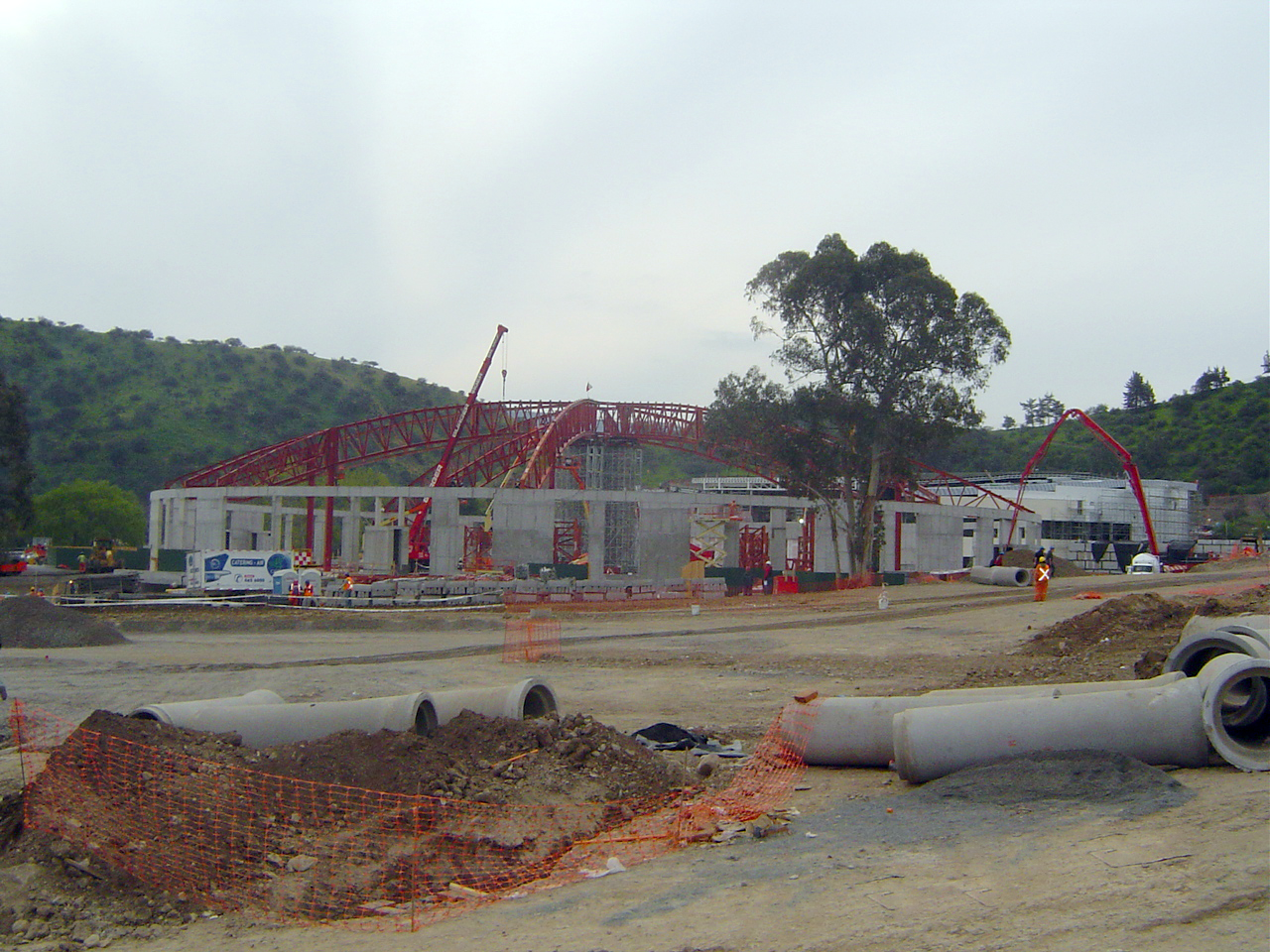 Monticello Casino's construction.